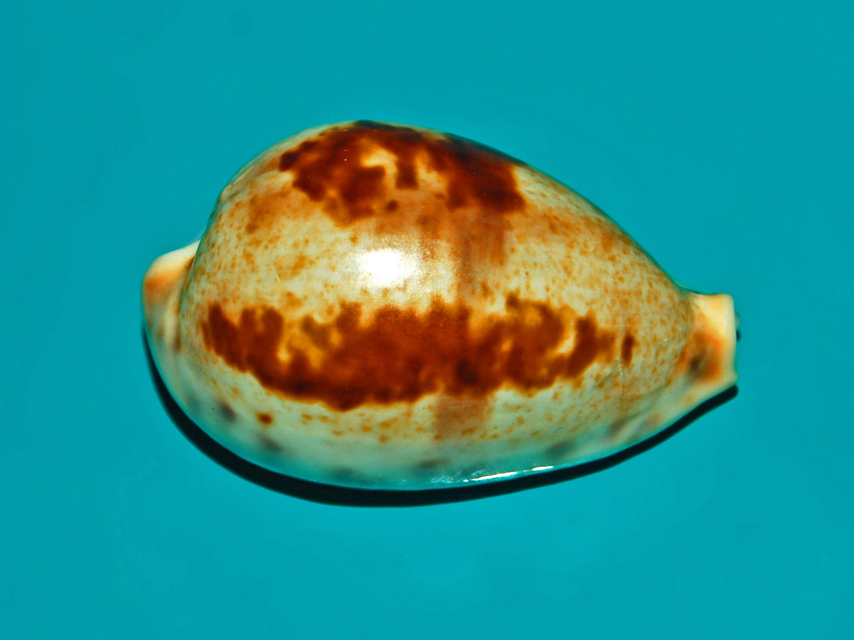 Contradusta pulchella